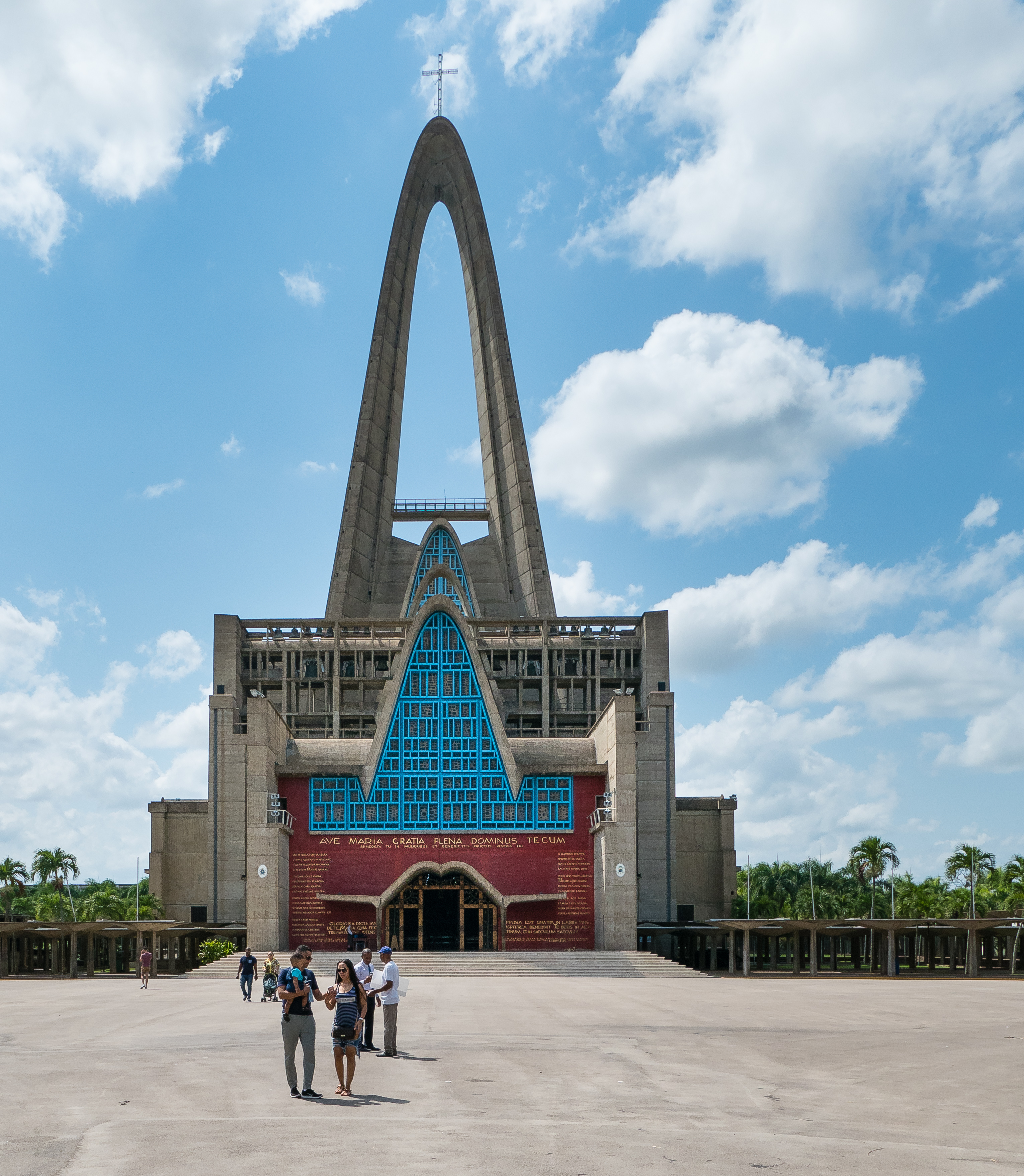 The basilica cathedral Nuestra Señora de la Altagracia in Higüey, main portal, March 2017